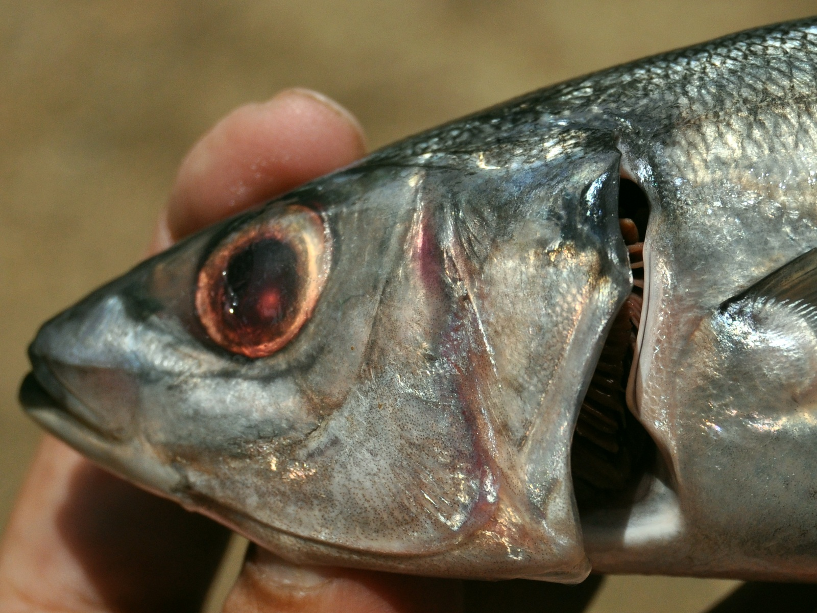 Decapterus macarellus from traditional market in Bogor, West Java, Indonesia. Head region; note the papillae on its cleithrum.